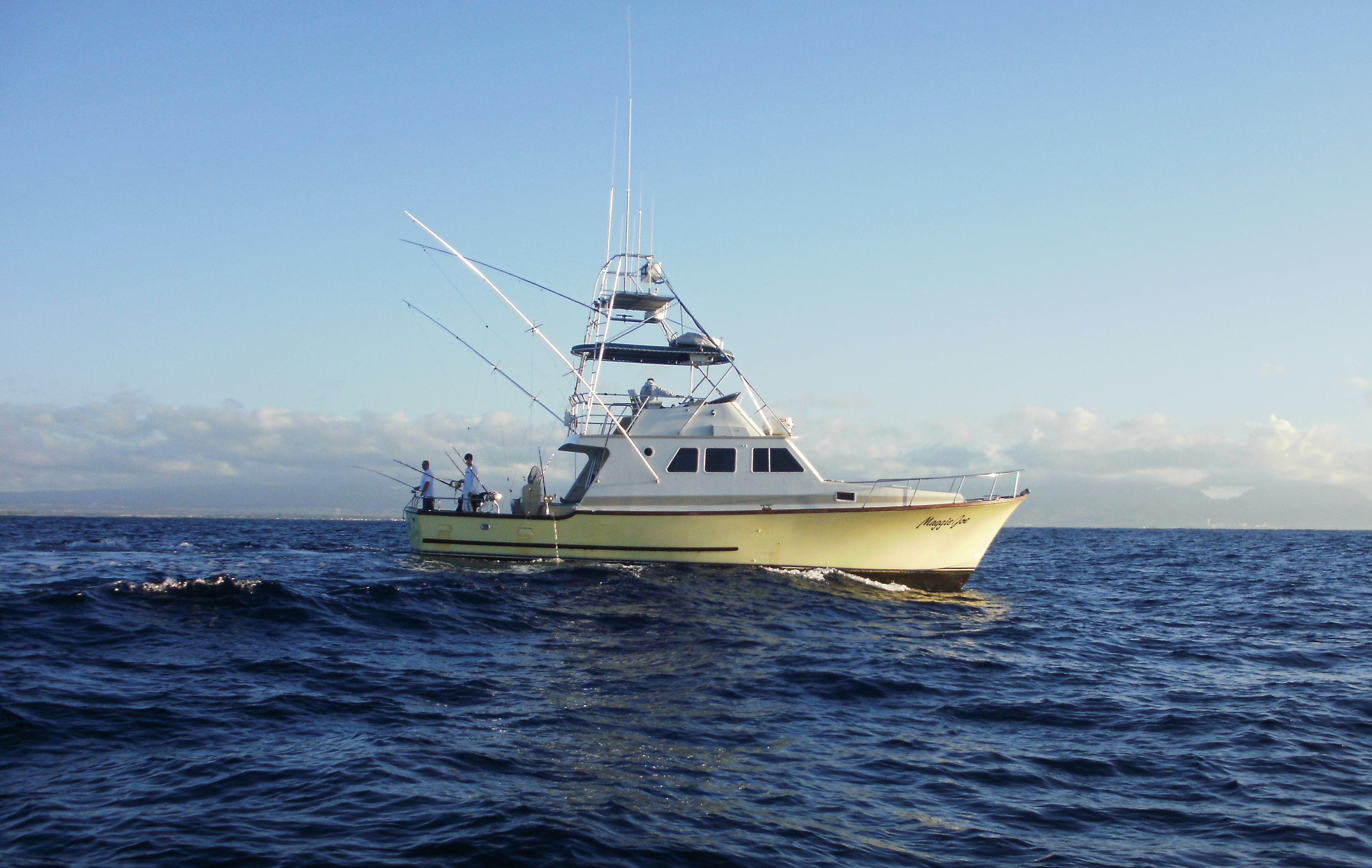 Fishing